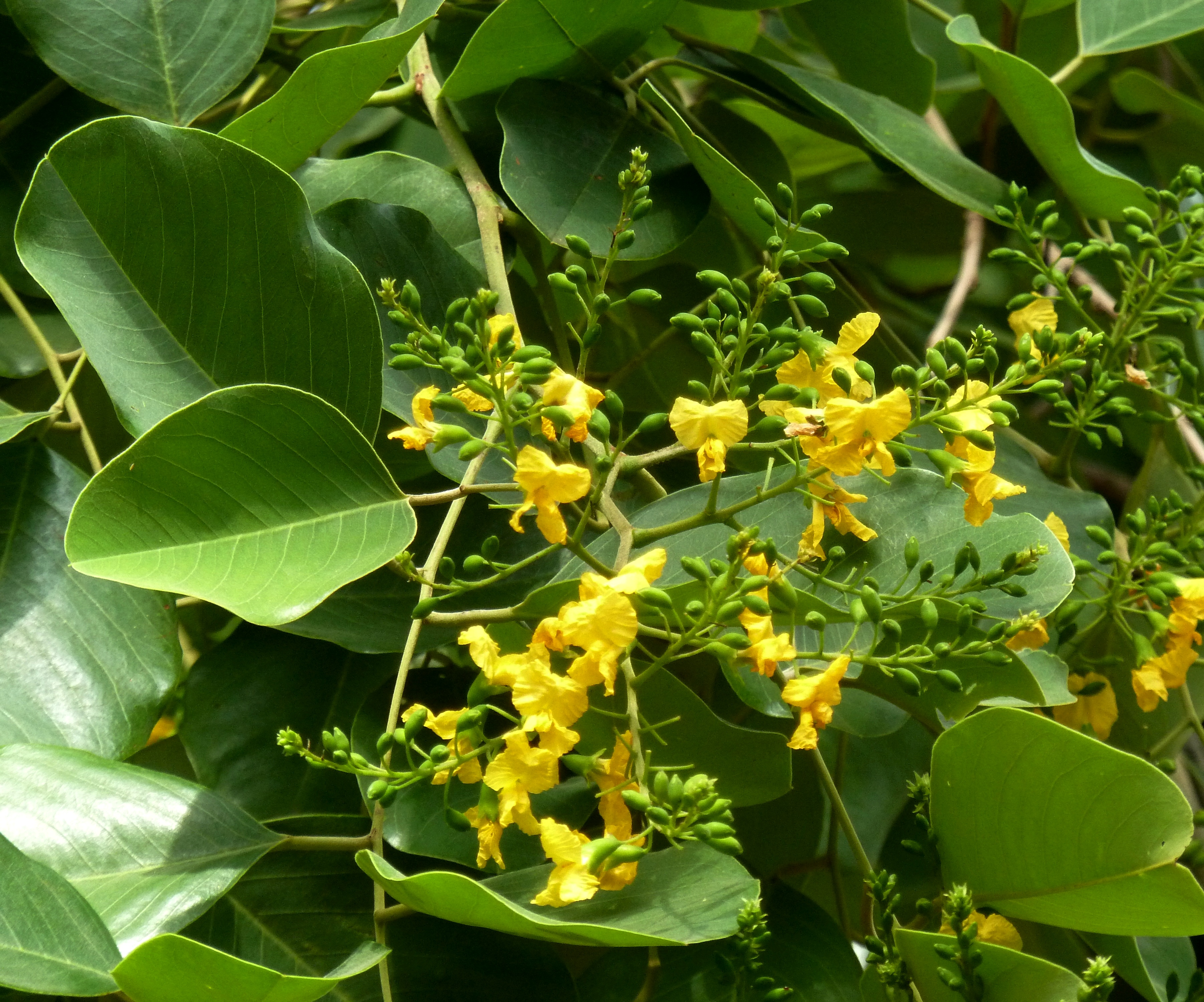 Inflorescence of a Round-leaved bloodwood in suburban Pretoria, South Africa